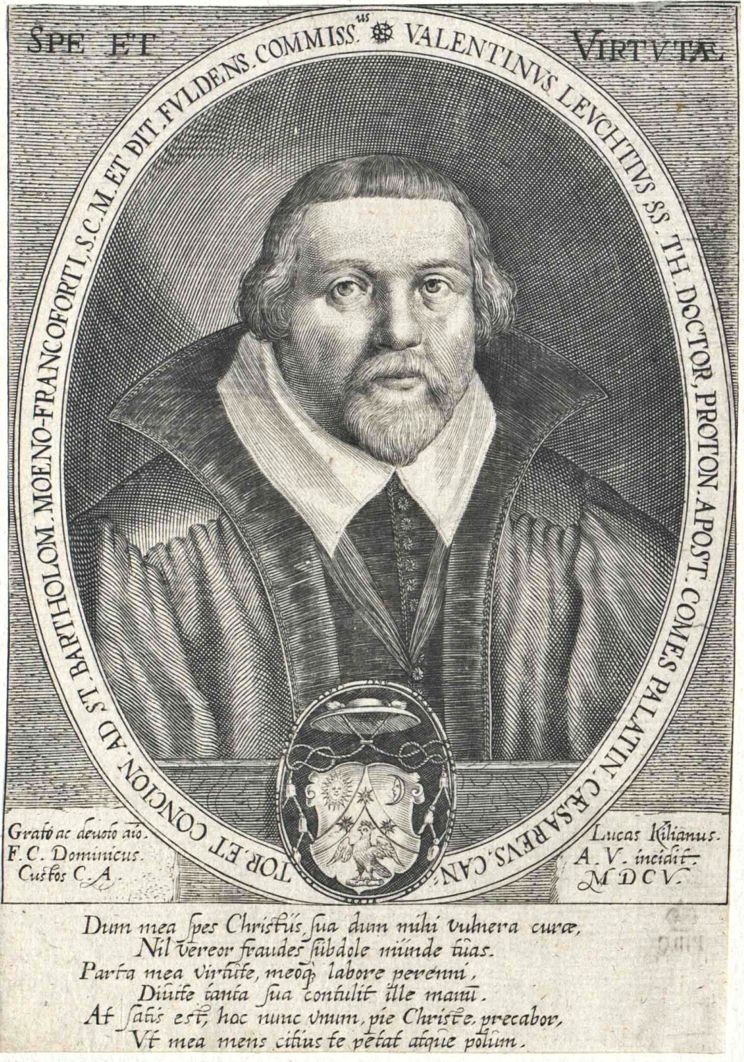 Valentin Leucht (1550-1619), katholischer Priester, Buchautor, Kanoniker am Frankfurter Dom, kaiserlicher und päpstlicher Bücherkommissar